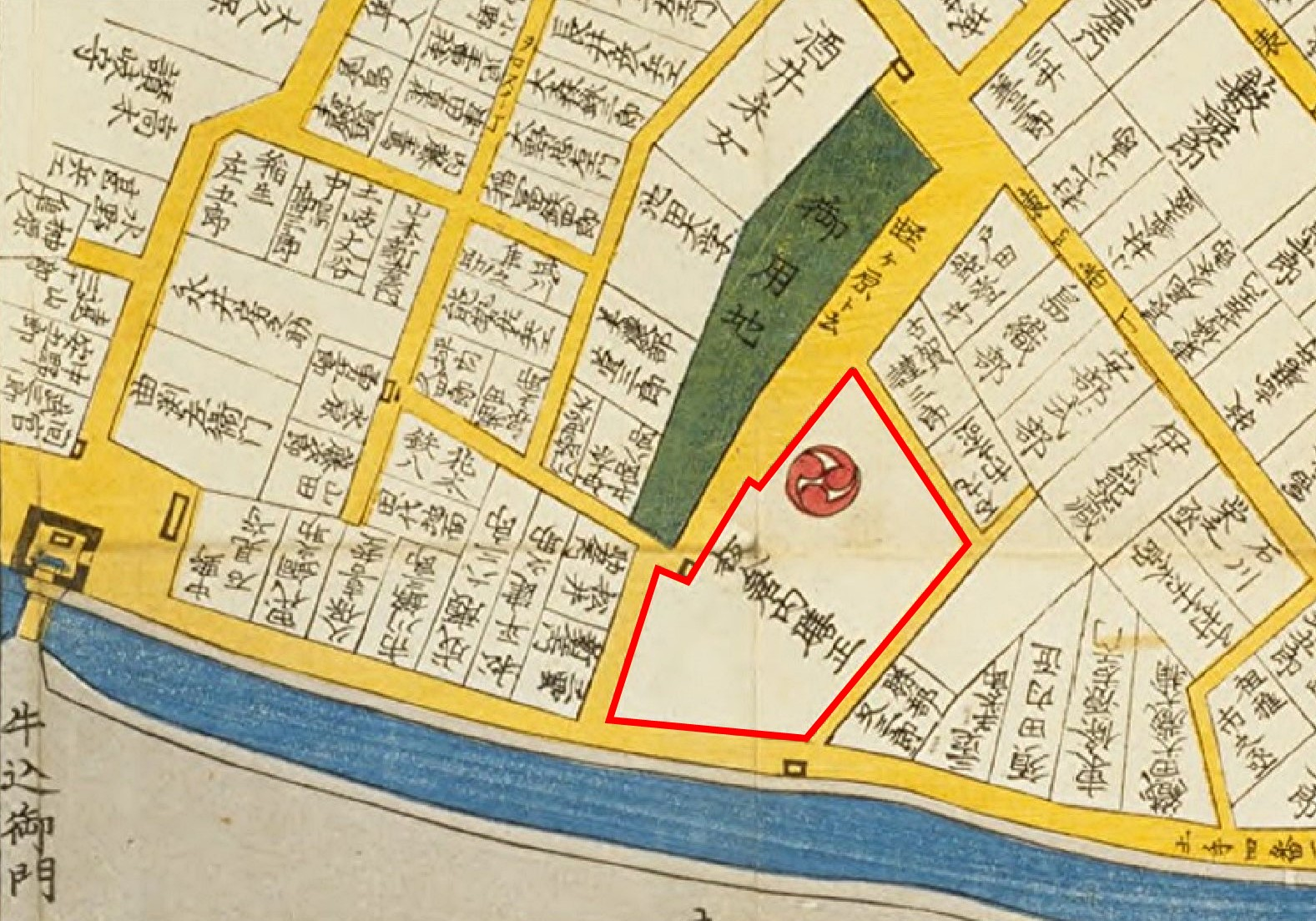 A residence of Itakura clan at Edo